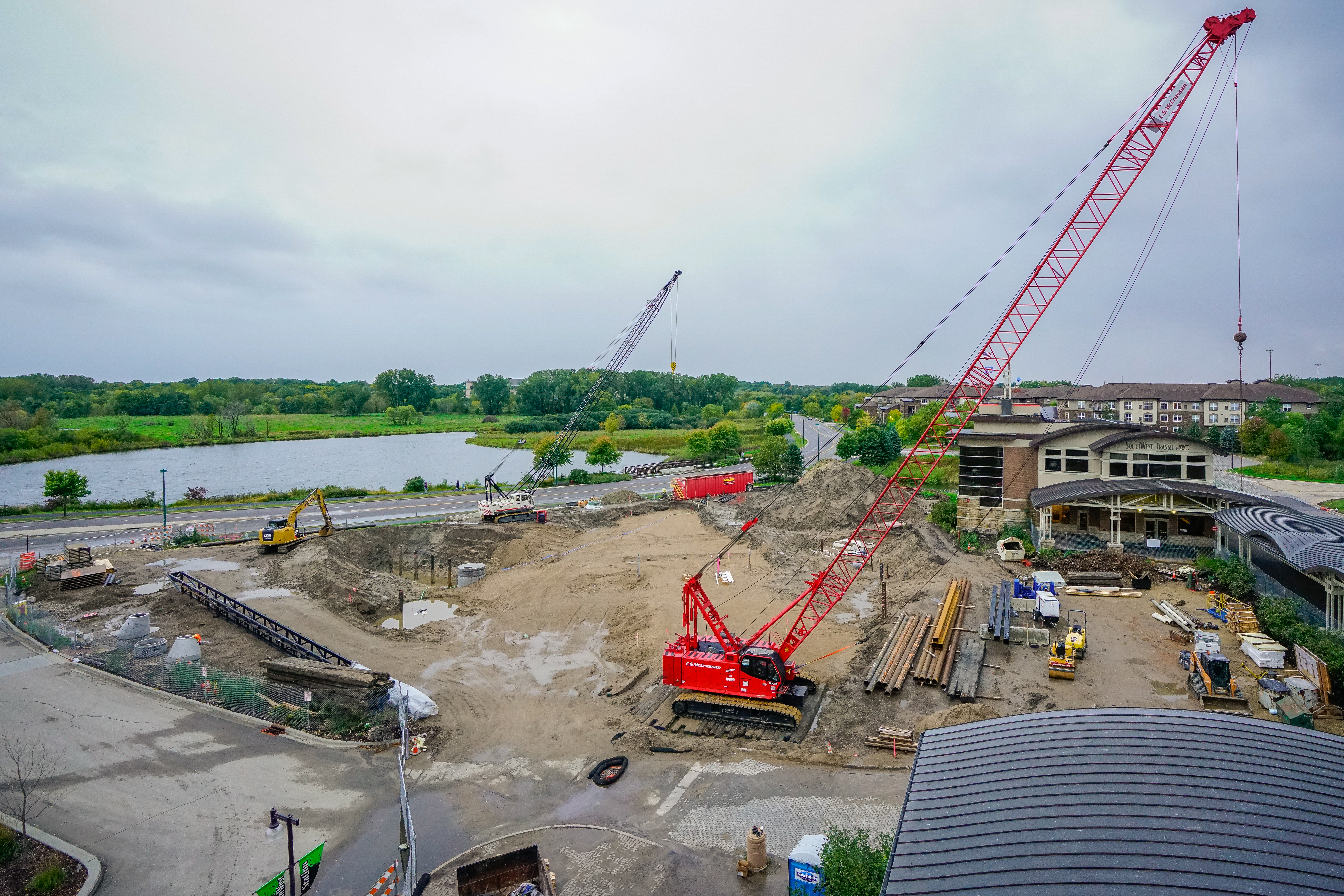 Southwest Station in Eden Prairie. Part of an on-going series following the Southwest Light Rail construction in the Twin Cities. See more